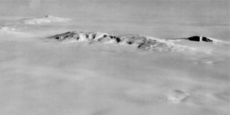 Aerial picture of Ames Range.Português do Brasil: Foto aérea da Cordilheira de Ames.